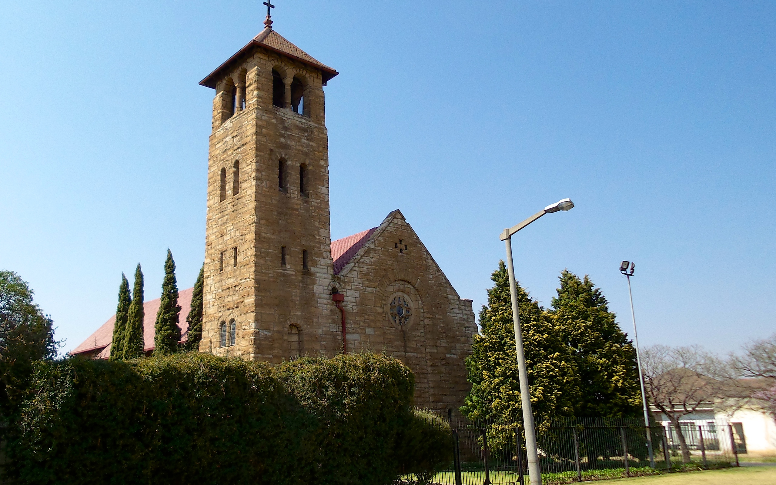 St Michael and All Angels Church, Plein Street, Boksburg This media shows a South African Protected Site with SAHRA file reference 9/2/209/0007.